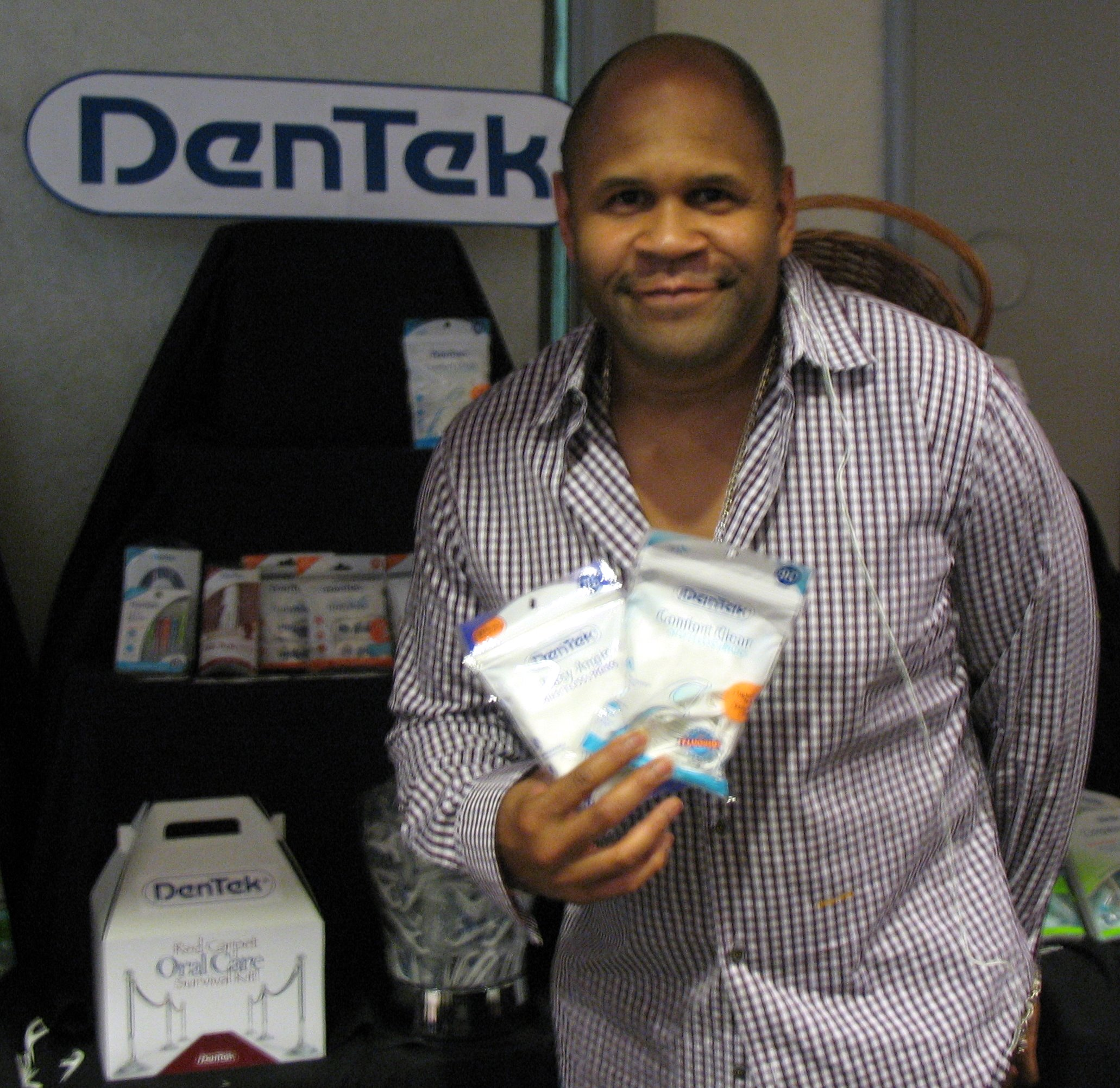 Rondell Jerome Sheridan at an awards ceromny